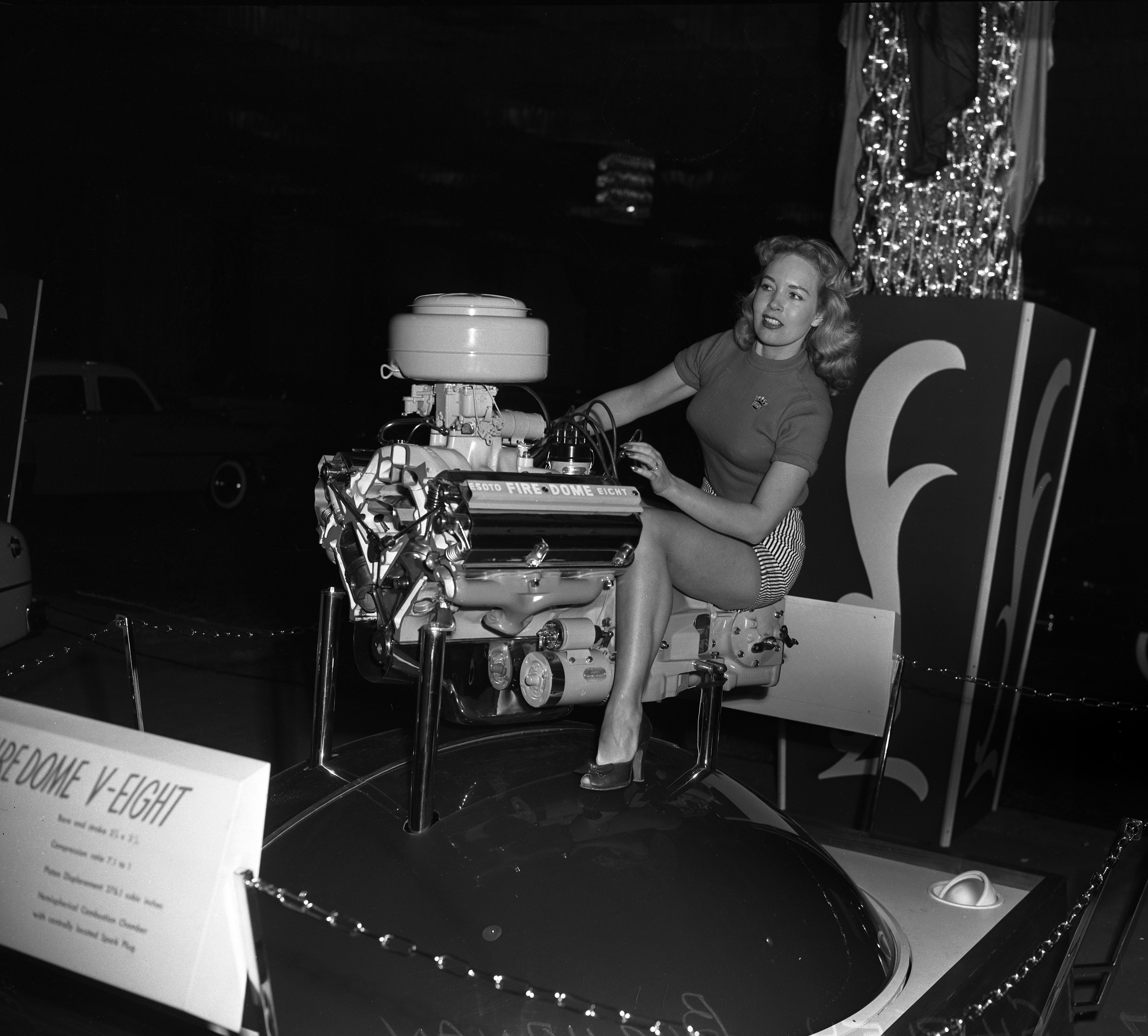 Title: 1950s model Shirley Buchanan and DeSoto Firedome V8 motor at the 1952 Los Angeles International Automobile Show, Calif. Publication:Los Angeles Daily News Publication date:March 7, 1952 Subjects: Automobiles--Exhibitions Automobiles--Motors Buchanan, Shirley Source:Los Angeles Times photographic archive, UCLA Library Licensing Note about non-renewal of copyright: [1]